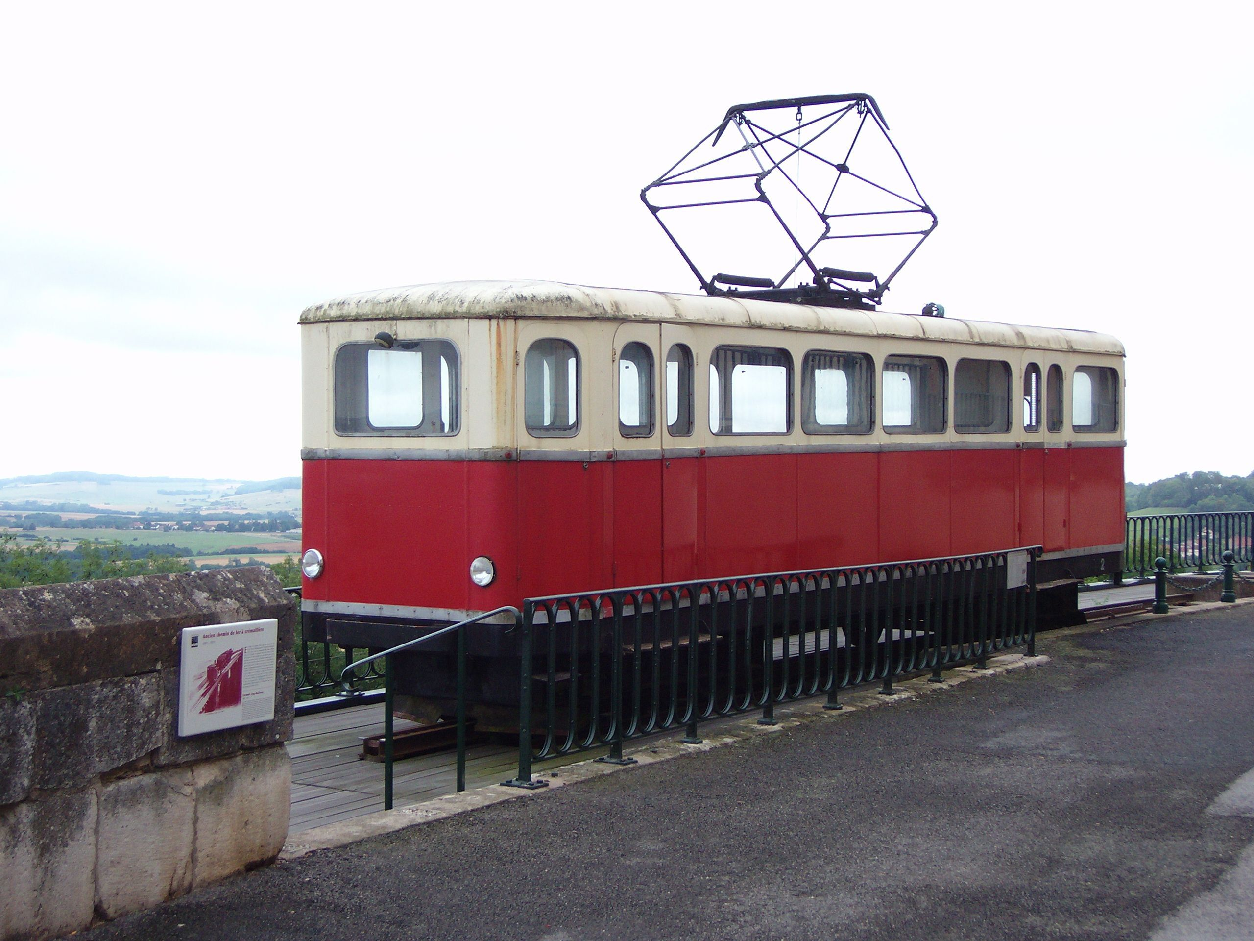 Langres, old cog-railway on the eastern city wall